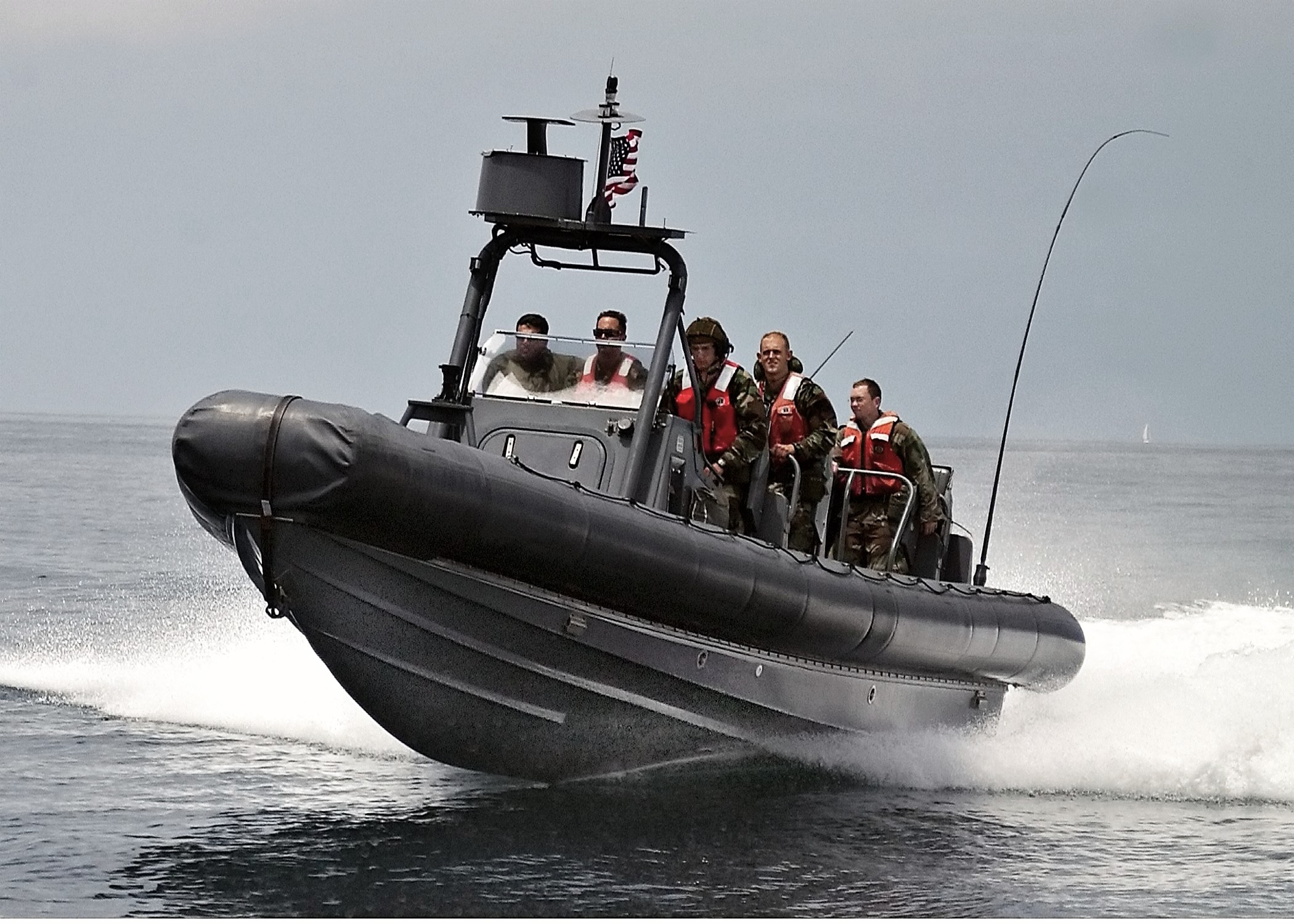 San Diego - Members of Special Warfare Combat Craft (SWCC) Class 45 familiarize themselves with the maneuvering capabilities of their Rigid Hull Inflatable Boat (RHIB) during a day of training in the Pacific Ocean.